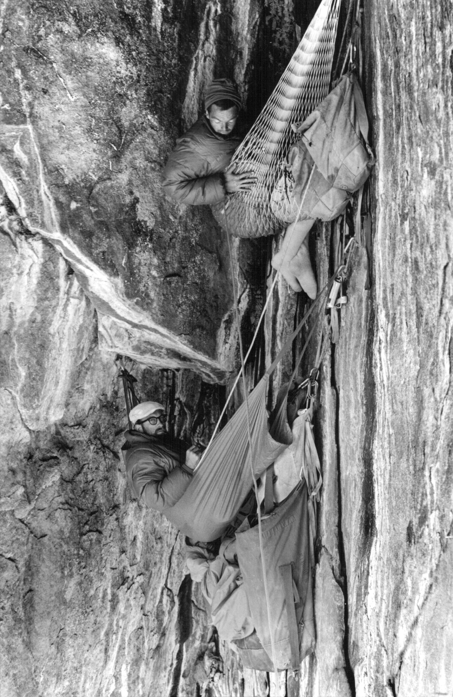 TENEMENT FLAT, Black Cave bivouac, Tom Frost, Royal Robbins, and Yvon Chouinard, North America Wall, El Capitan, Yosemite Valley, California. First ascent by Robbins, Pratt, Chouinard, and Frost, 10 days, October 1964.